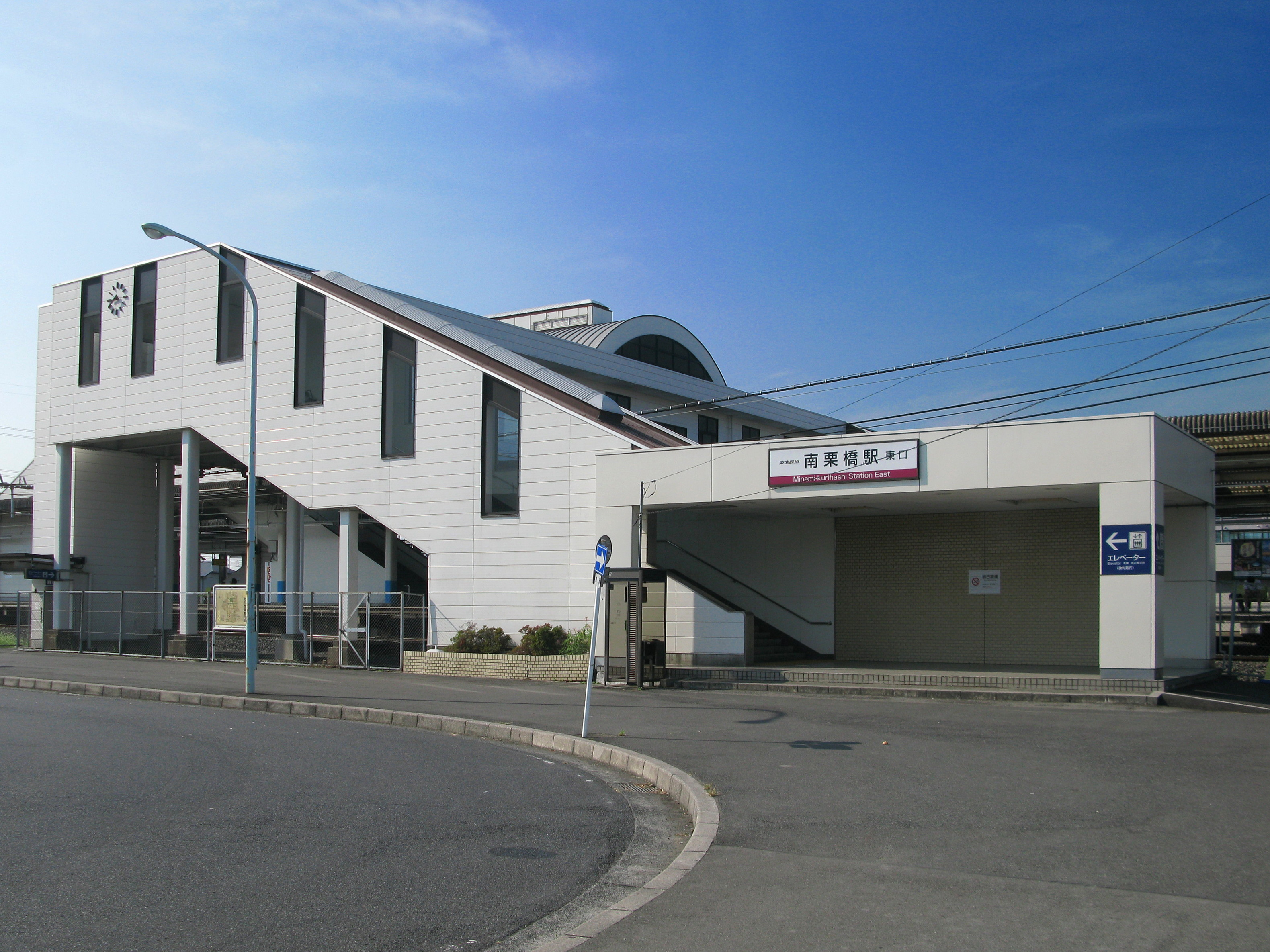 The east entrance to Minami-Kurihashi Station on the Tobu Nikko Line in Saitama Prefecture, Japan